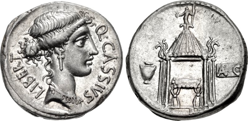 Q. Cassius Longinus. 55 BC. AR Denarius (18mm, 3.95 g, 9h). Rome mint. Head of Libertas right, wearing hair collected into a knot, decorated with jewels, and falling down neck, and wearing single-drop earring and necklace of pendants; LIBERT upward to left, Q • CASSIVS downward to right / The temple of Vesta, circular, surmounted by figure holding scepter and patera, flanked by antefixes; curule chair within; urn to left, tabella (voting tablet) inscribed AC (Absolvo Condemno) to right. Crawford 428/2; Sydenham 918; Cassia 8; Kestner 3468-70; BMCRR Rome 3873-5; RBW 1534. EF, lustrous. Well centered and struck. From the RAJ Collection. Ex Fred Shore FPL 123 (2006), no. 11.